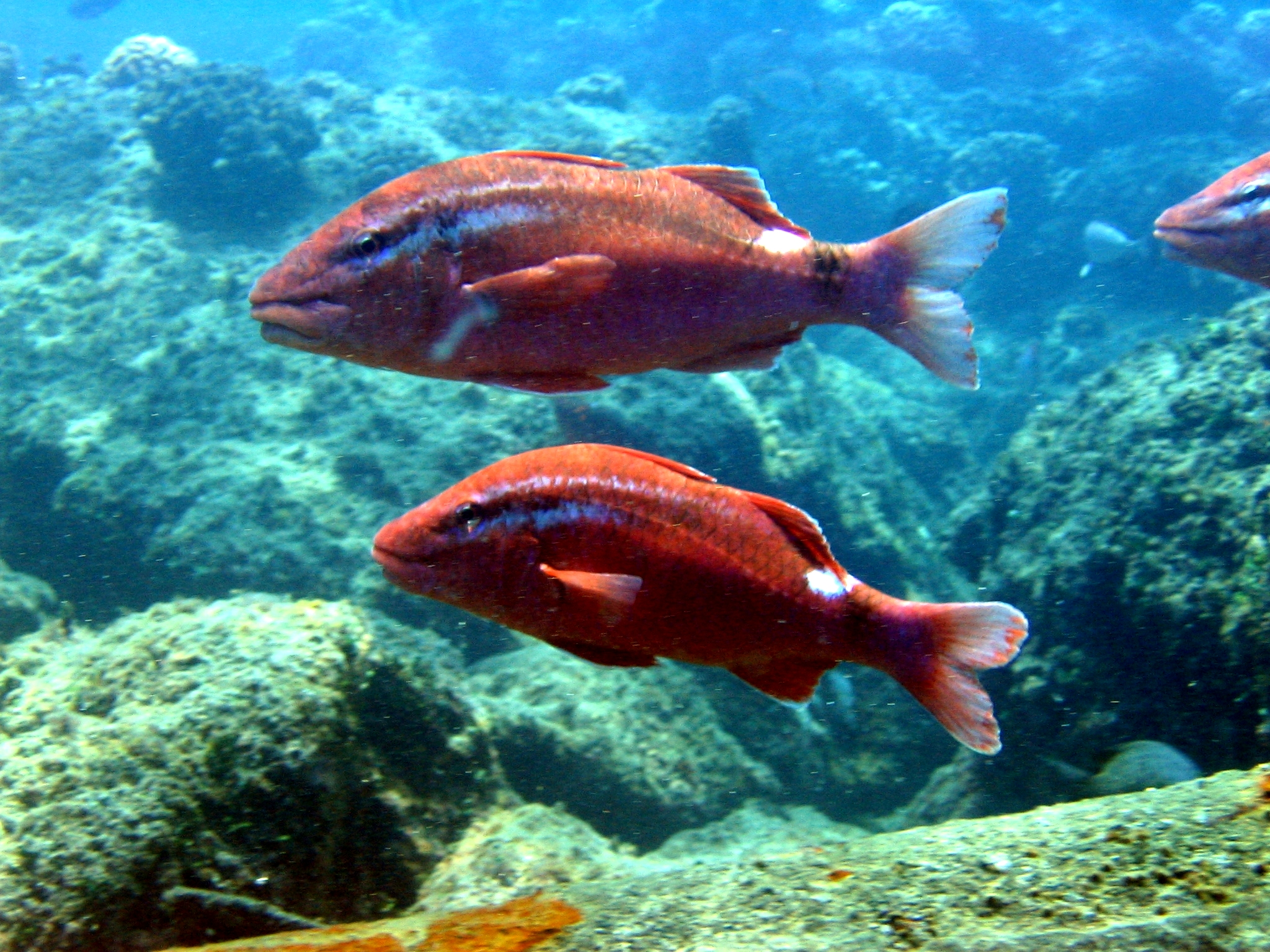 Whitesaddle goatfish (Parupeneus porphyreus) Image ID: reef0654, NOAA's Coral Kingdom Collection Location: Northwest Hawaiian Islands